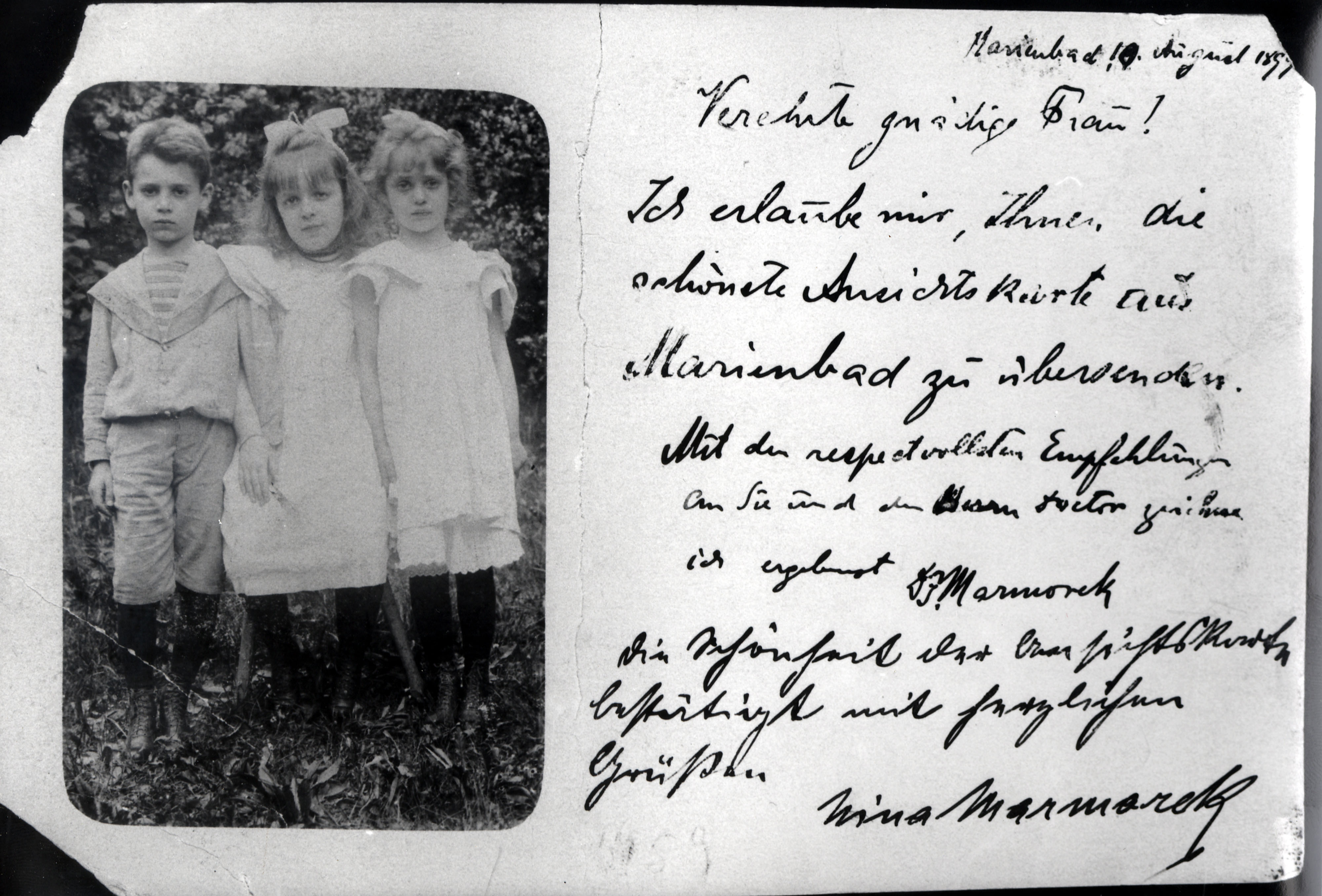 THEODOR HERZL'S CHILDREN IN 1897. ילדיו של תיאודור הרצל - שנת 1897.